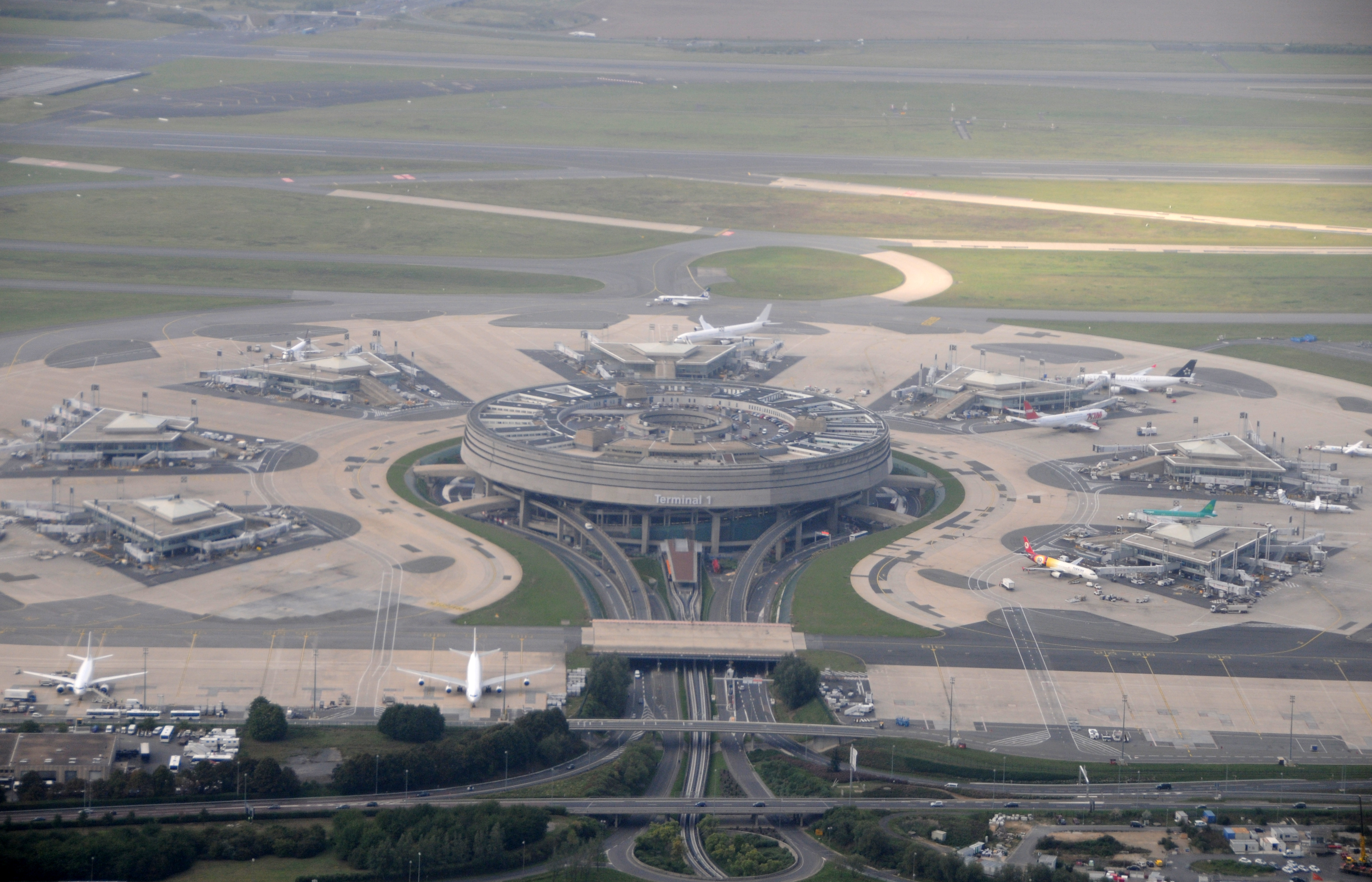 Terminal 1 at Paris Roissy airport